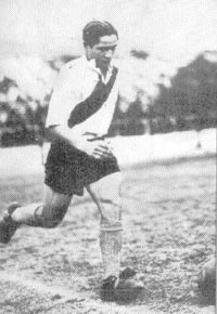 Argentine football forward Adolfo Pedernera during his time with River Plate. He played his last game for the club in 1946